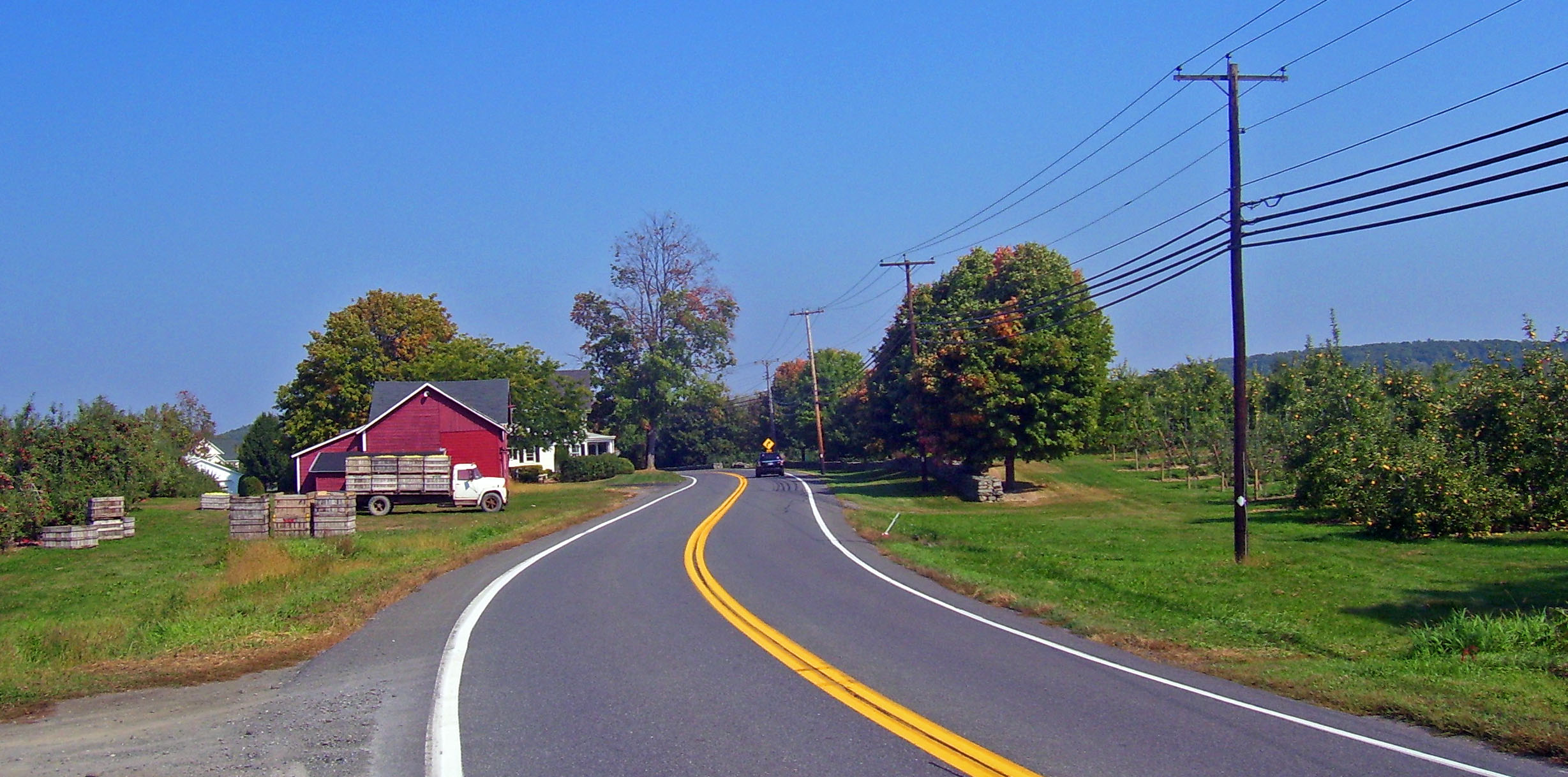 US 44/NY 55 going through apple-growing country between the hamlets of Ardonia and Clintondale in the Town of Plattekill, NY, USA